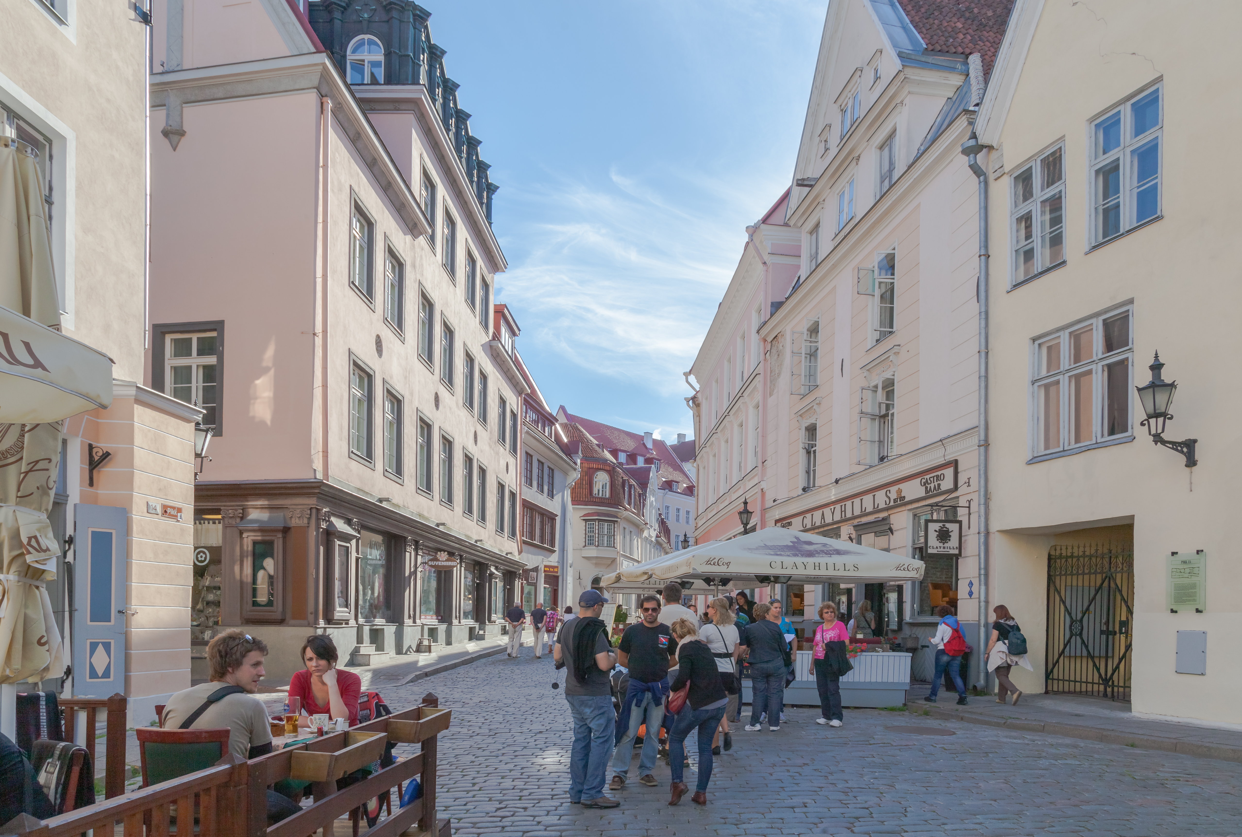 Pikk Street, Tallinn, Estonia